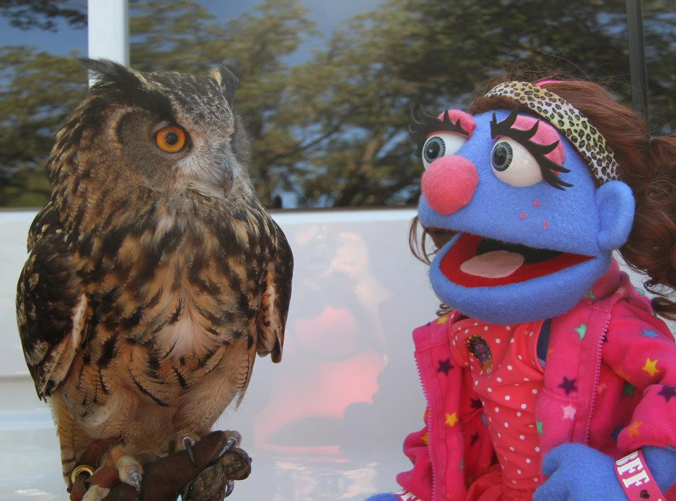 Puppet character Bleeckie with an owl from the Dallas Zoo, at the Change is Good event with Community Partners of Dallas.